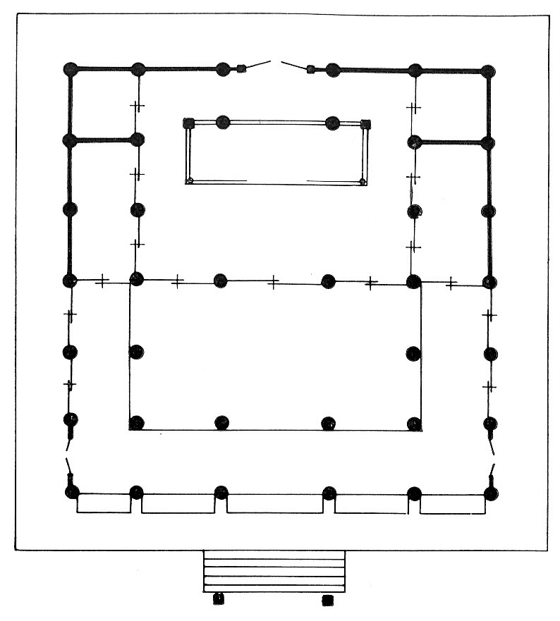 Layout of Myôtsû-ji temple at Obama, Japan